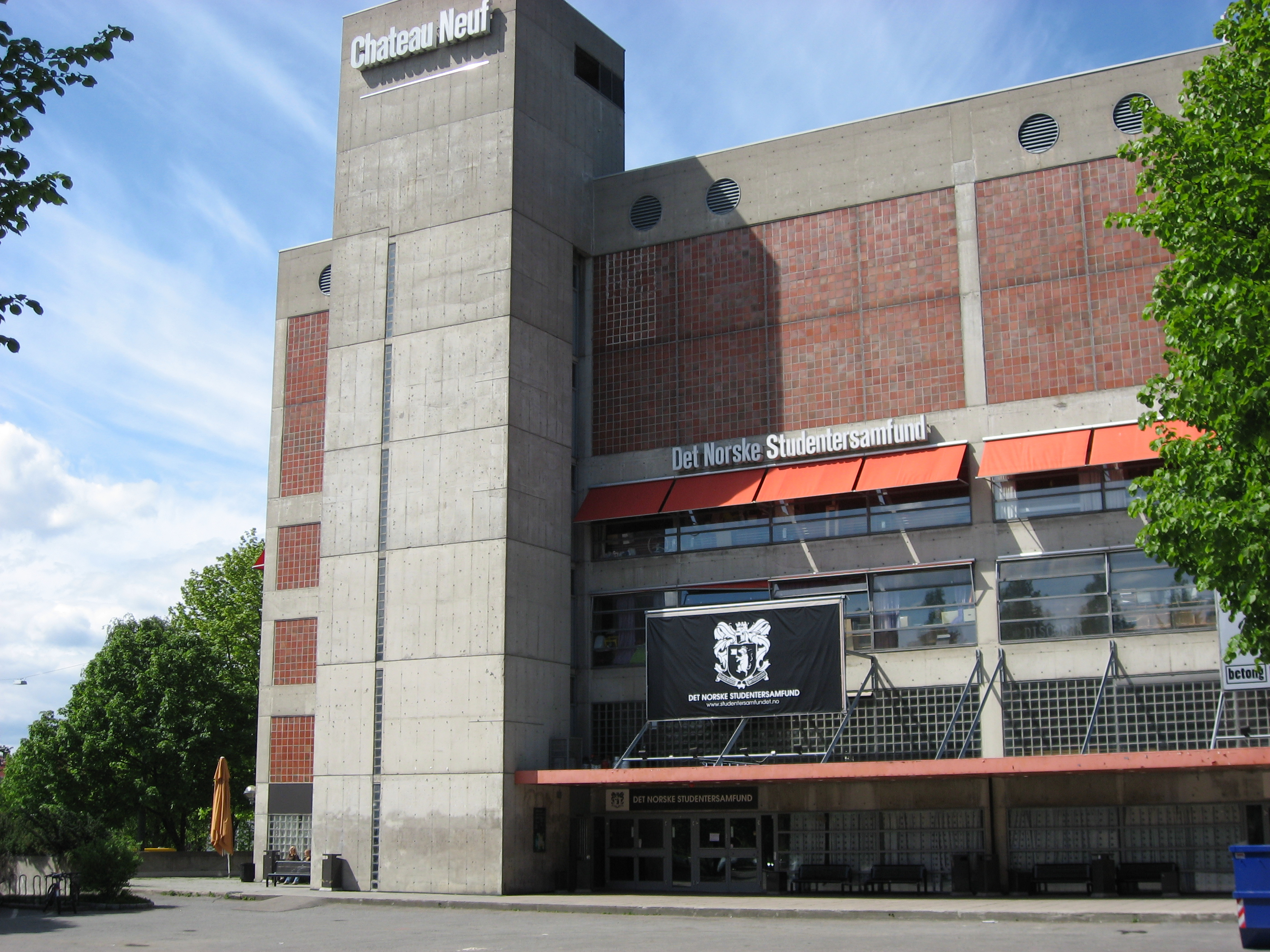 The building of the student union in Oslo. The building is known as “Chateau Neuf”. Architects: Kjell Lund and Nils Slaatto